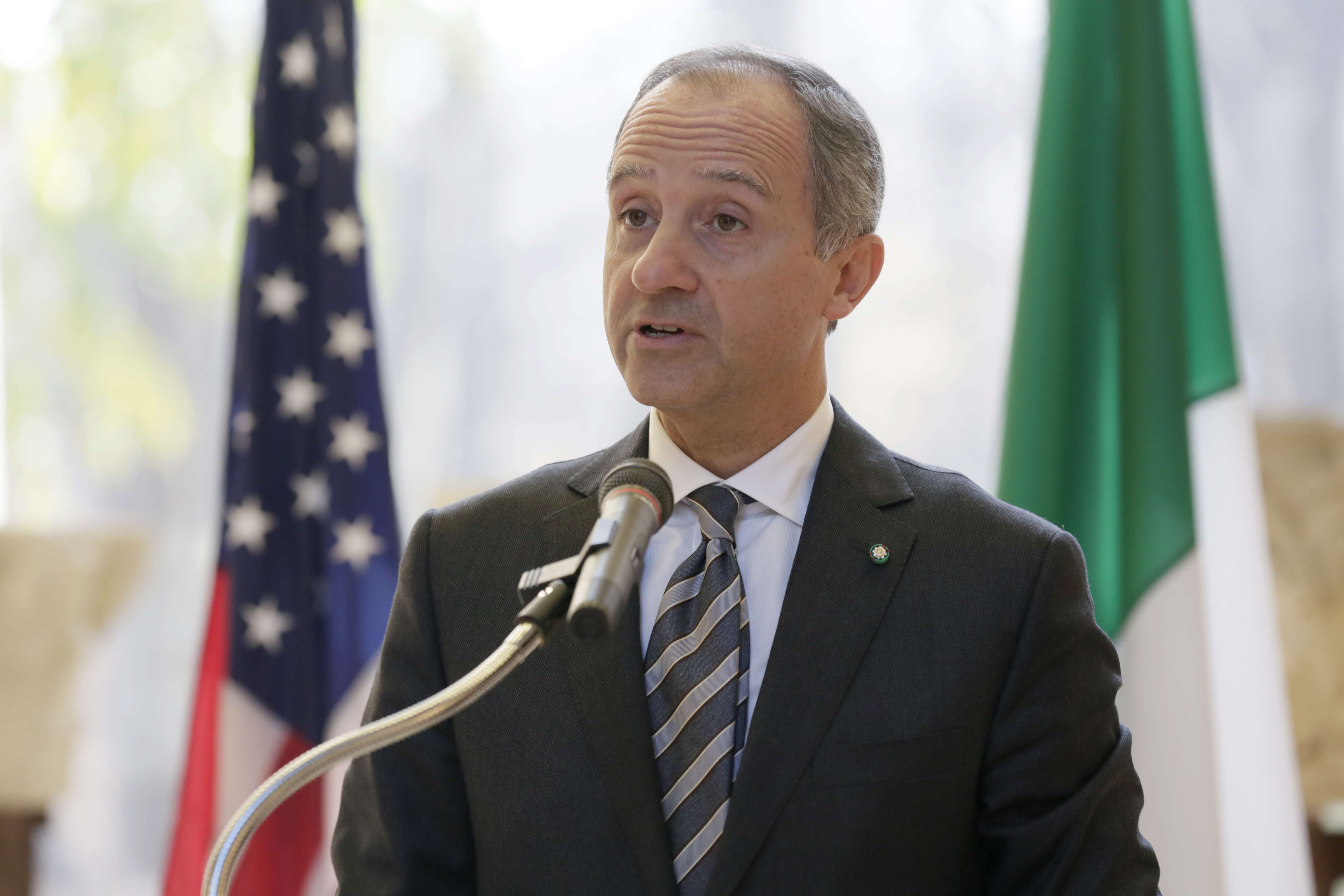 Italian Ambassador to the United States Armando Varricchio delivers remarks as he hosts a ceremony repatriating historic artifacts recovered by the United States and presented to the government of Italy at the Italian Embassy in Washington, D.C., December 9, 2016. U.S. Customs and Border Protection Photo by Glenn Fawcett